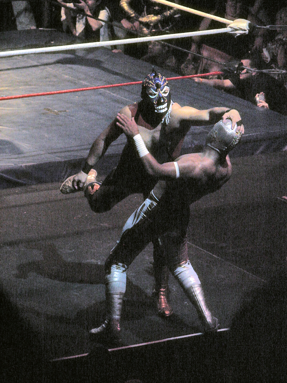 Luchador Mistico wrestling against an opponent in lucha libre.